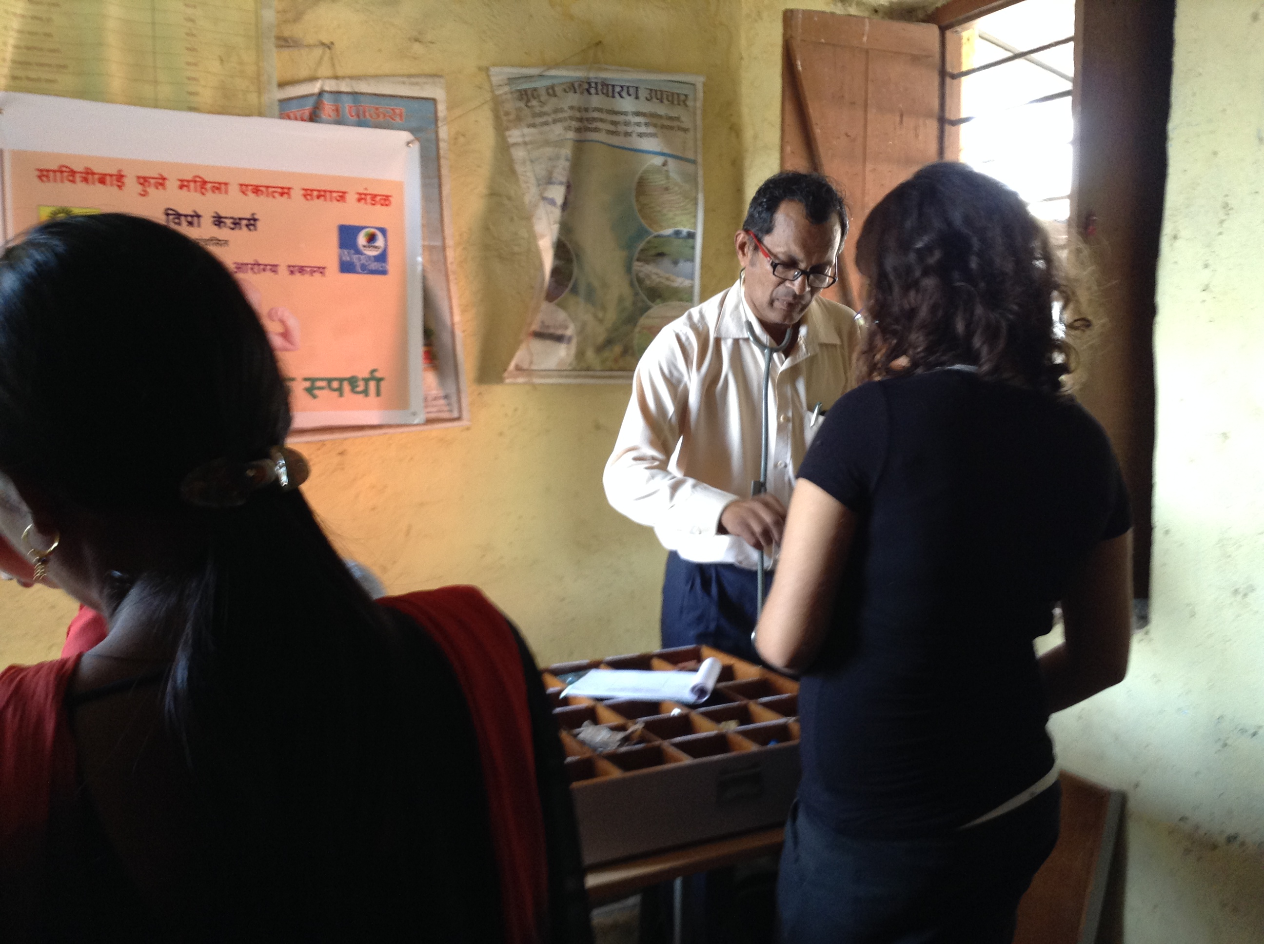 child health camp